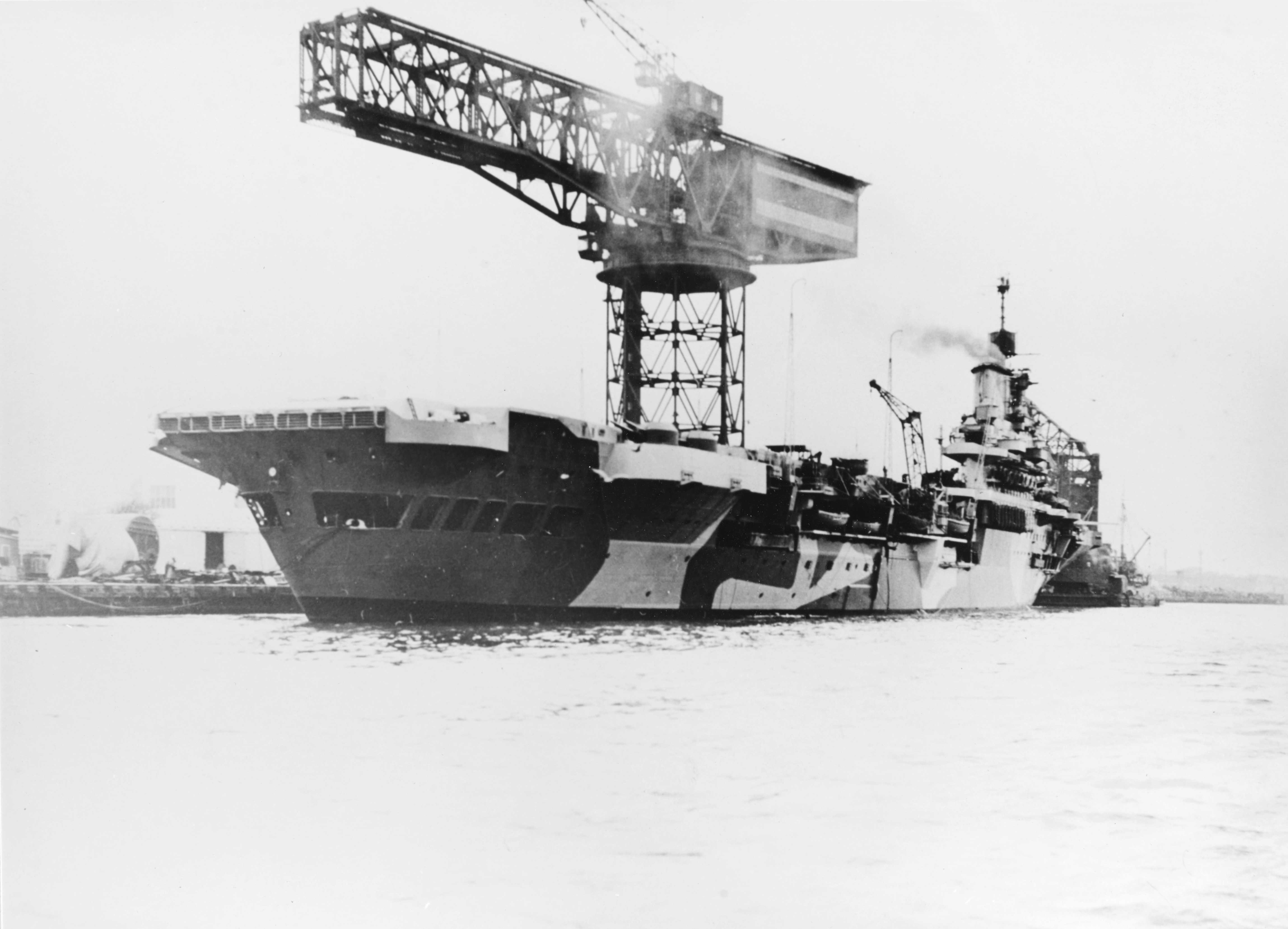 The Royal Navy aircraft carrier HMS Illustrious (87) at the Norfolk Naval Shipyard, Virginia (USA), following battle damage repairs, November 1941.